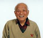 Shigeru Mura, a comic artist, received the Person of Cultural Merit on November, 2010.